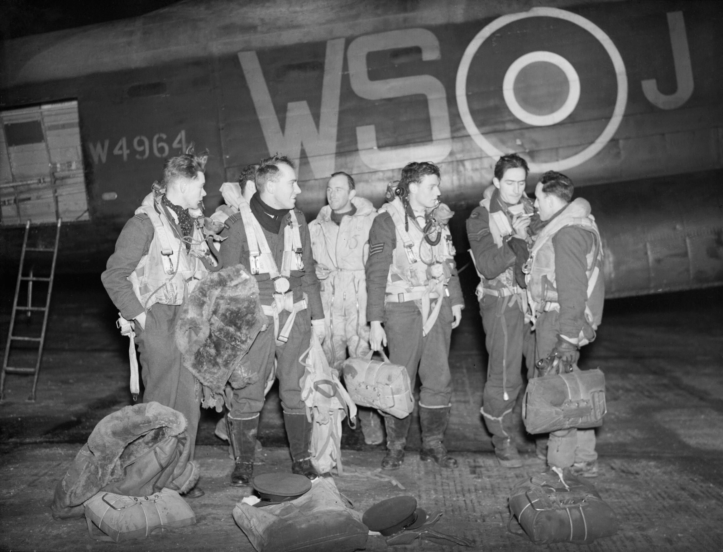 Royal Air Force Bomber Command, 1942-1945. Flying Officer A E Manning and his crew gather by their aircraft, Avro Lancaster B Mark I, W4964 'WS-J', of No. 9 Squadron RAF, shortly after their return to Bardney, Lincolnshire, in the early hours of 6 January 1944, after raiding Stettin, Germany.